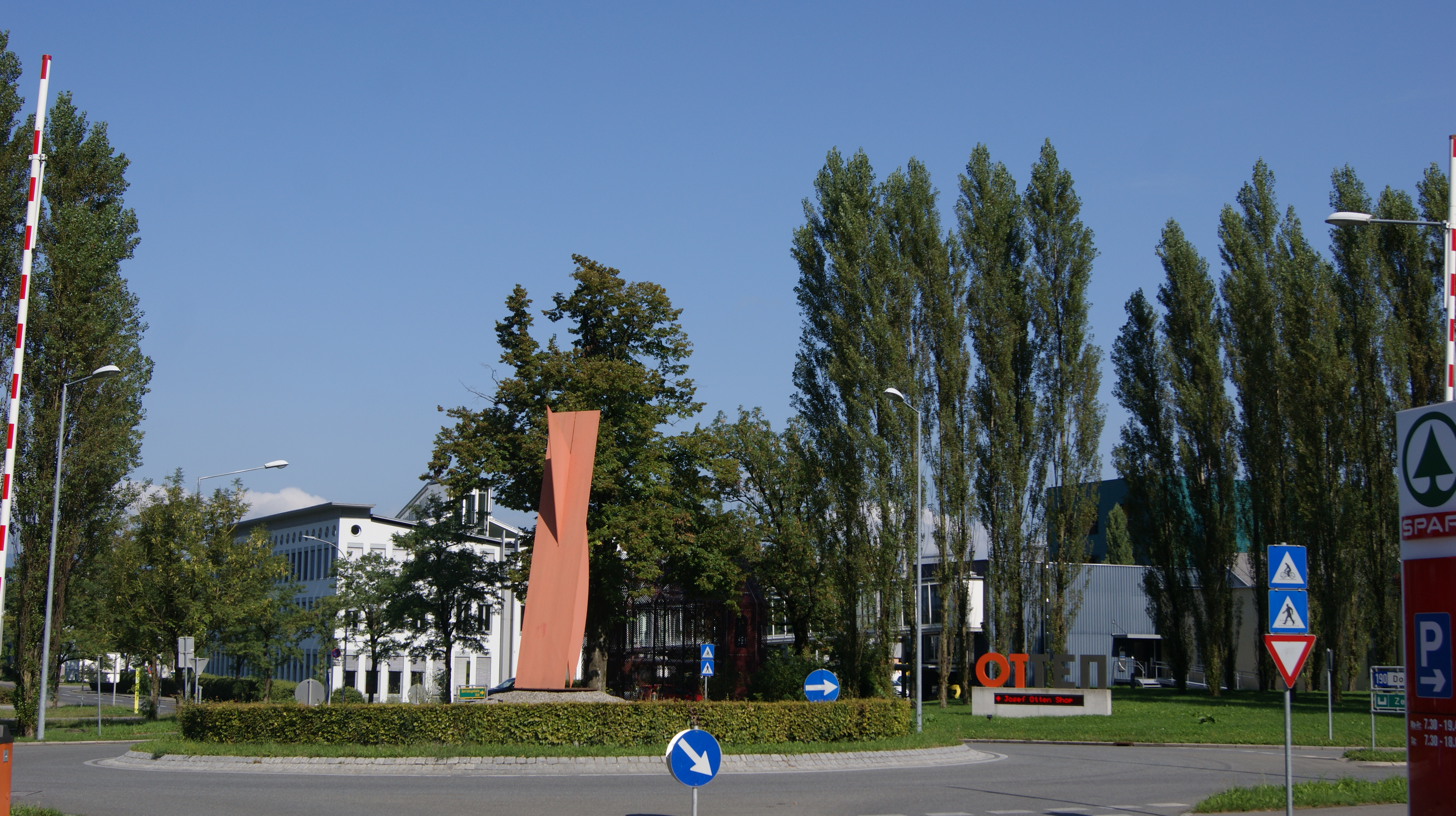 Local centre "Schwefel" in Hohenems, Vorarlberg, Austria. View from the "Spar"-Parking to the "sulfur"-roundabout and the Company "Otten.".